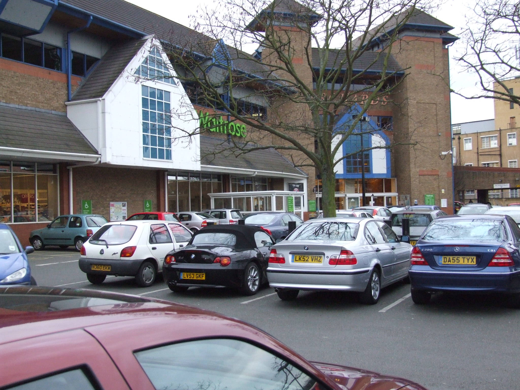 Orchards shopping centre in Dartford showing entrance to Waitrose.